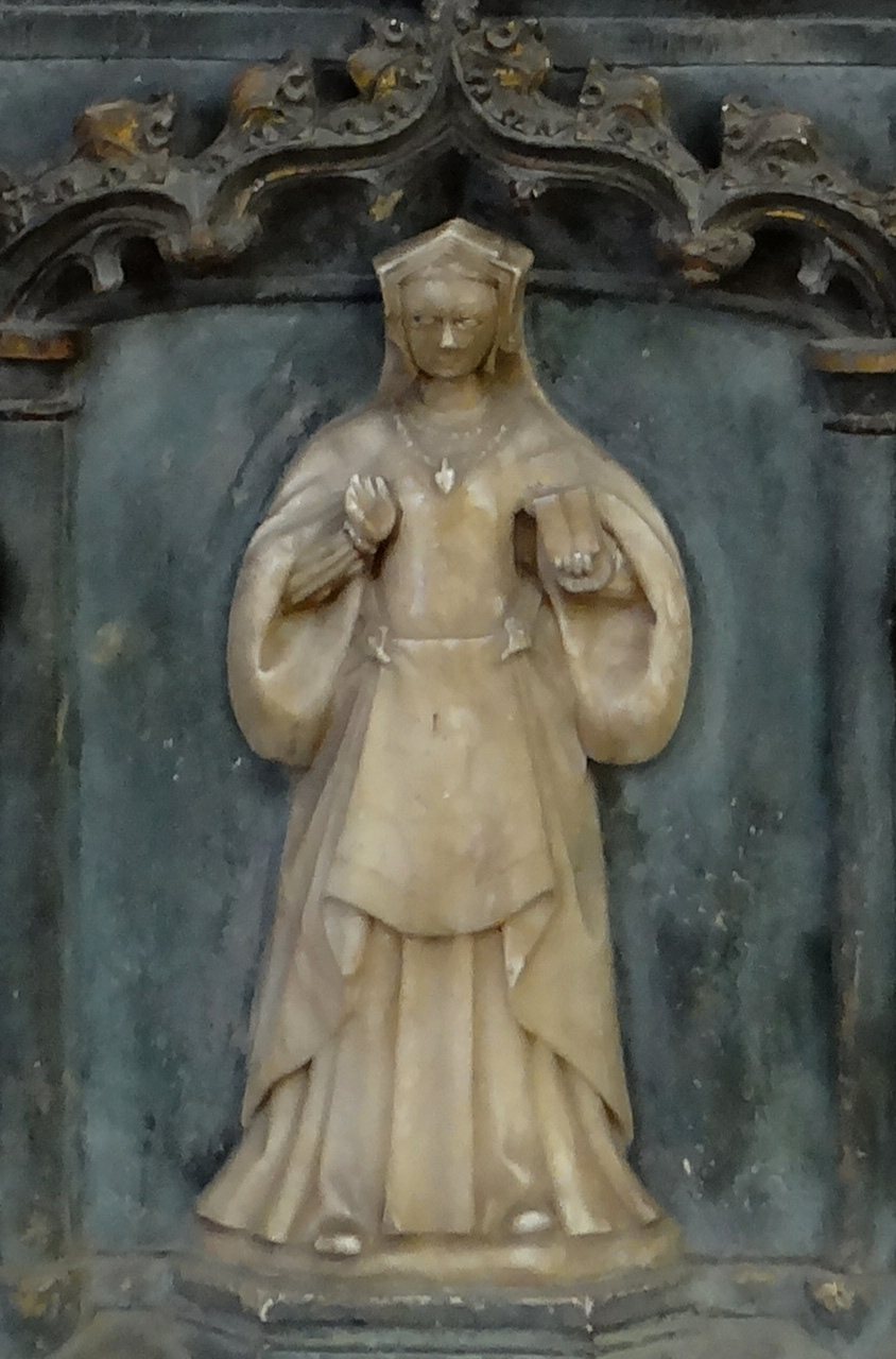 Monument to Sir Richard Knightley, d. 1534, and his wife Jane Skenard, by Richard Parker of Burton upon Trent - 1 of 4 daughter 'weepers on south side'